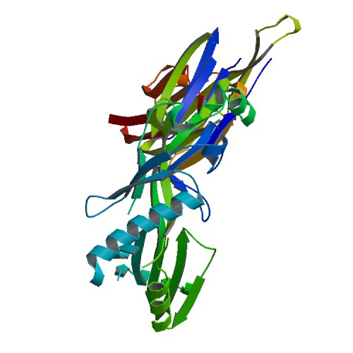 Model of pneumolysin obtained by fitting the alpha-carbon trace of perfringolysinO into a cryo-EM map.[1]